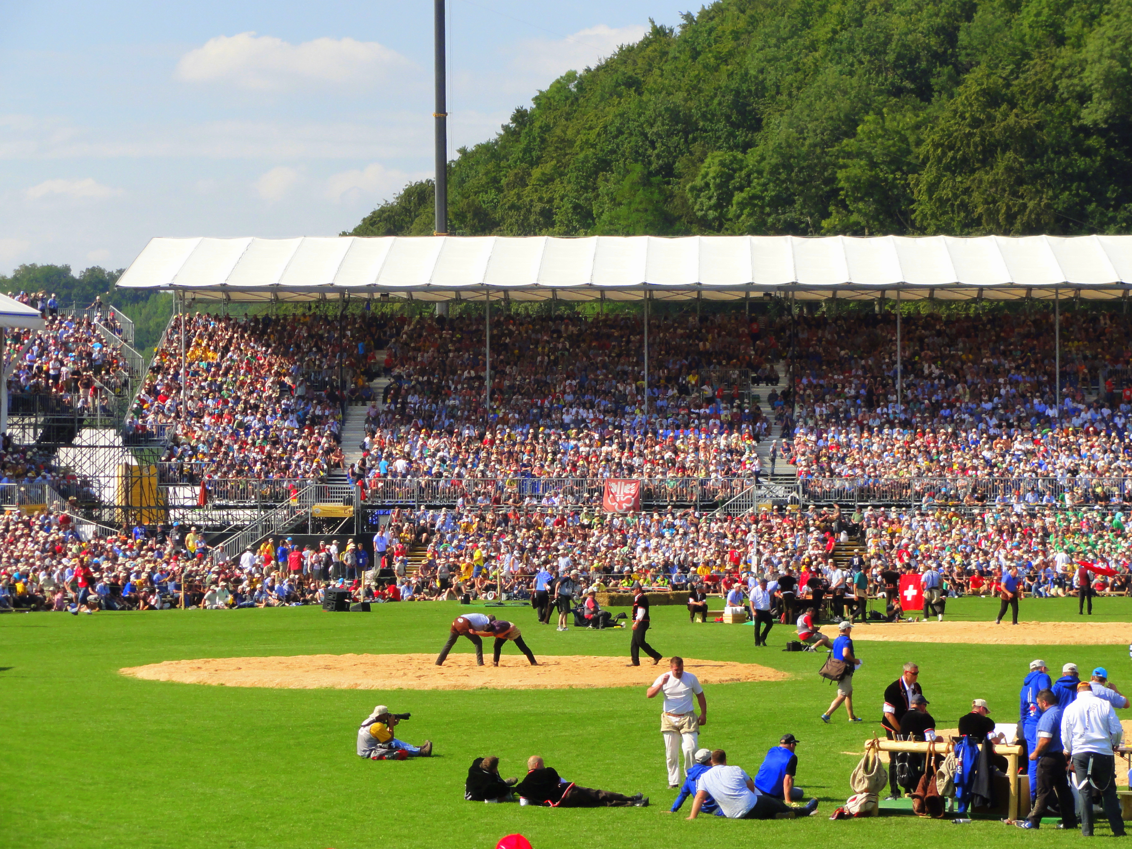 eidgenössisches schwing- und älplerfest 2013 burgdorf emmental